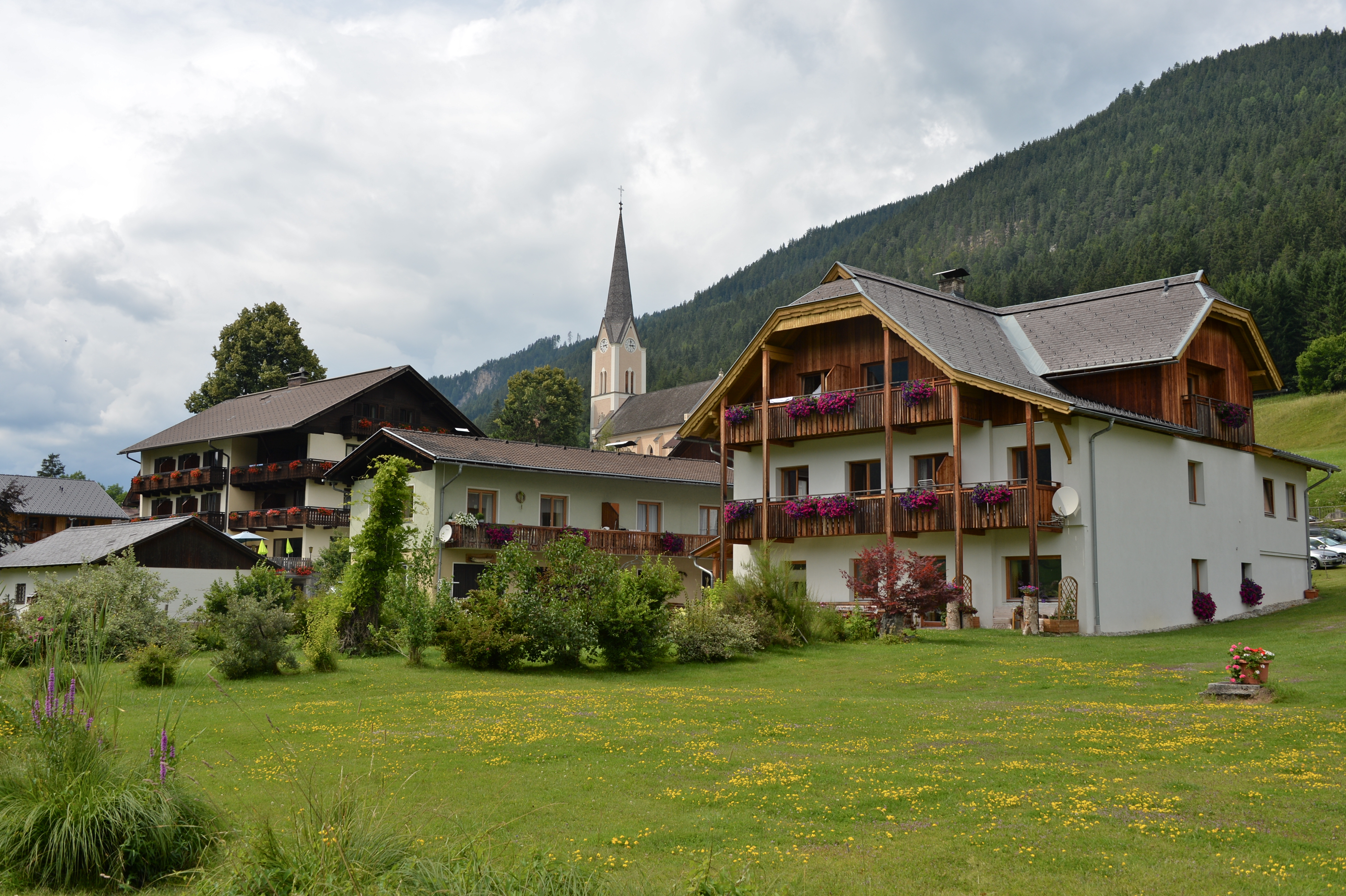 South east view at Techendorf, municipality Weissensee, district Spittal an der Drau, Carinthia / Austria / EU